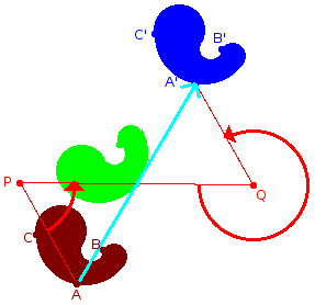 Generic translation created with two rotations, made with kig, by Toobaz (